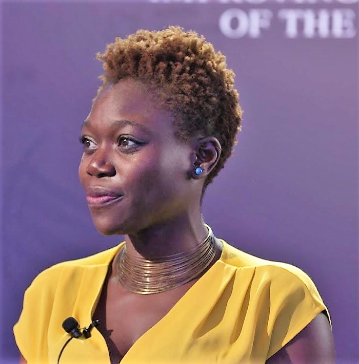 Can blockchain technology solve the challenges of lack of integrated data and accountability mechanisms to improve public health in urban settings? Tolu Oni of the University of Cape Town, South Africa, explains the underlying concepts behind this approach and the challenges in applying it.